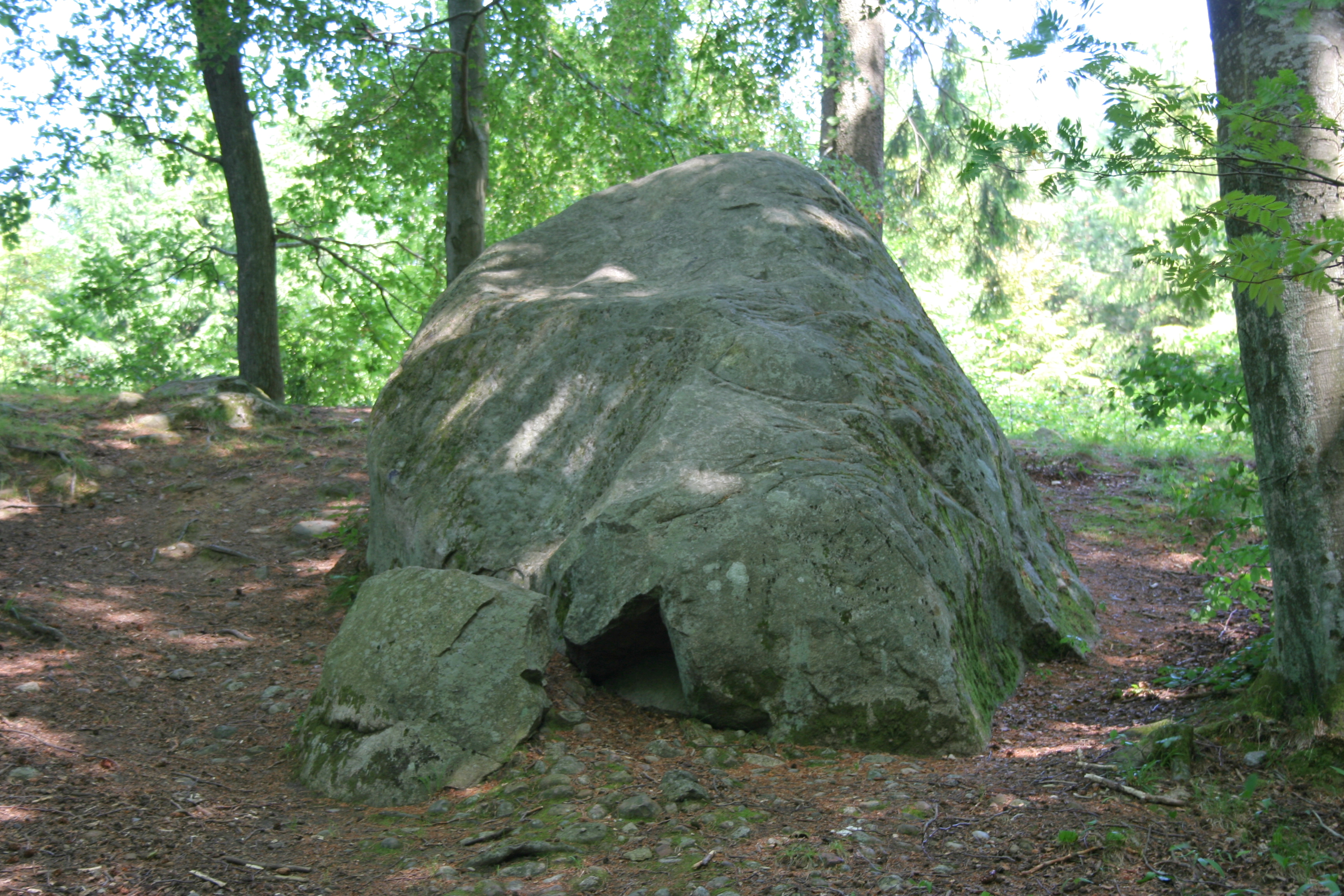 Glacial erratic "Diabelski Kamień" in Puszcza Darżlubska.